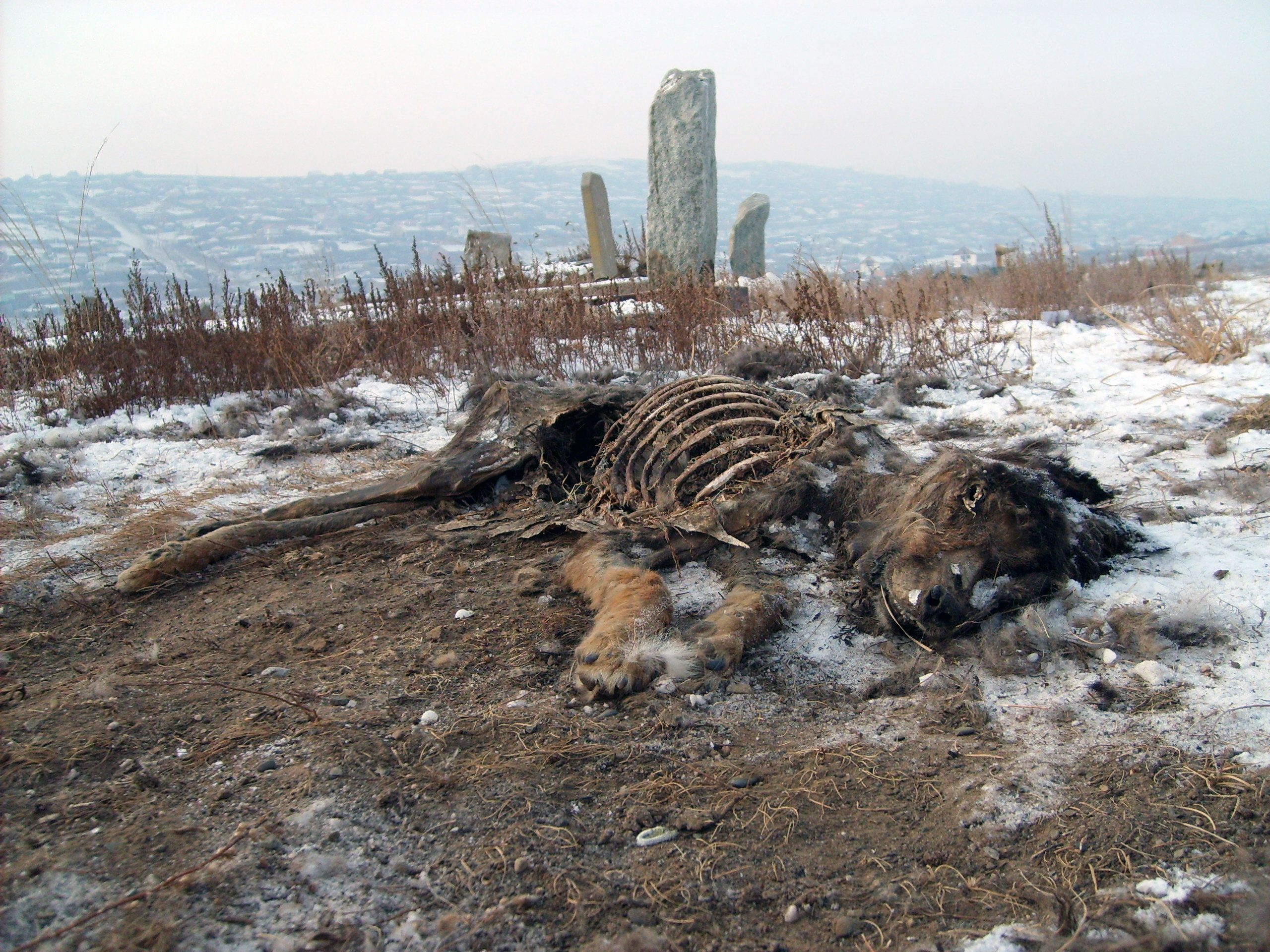 A dead dog on the Mongolian cemetery in Ulaanbaatar.